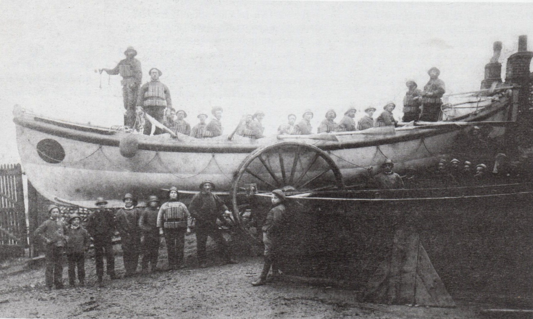 Postcard of the Sheringham RNLB Duncan, scanned and cropped image from personnel postcard collection. there is no Copyright attributions. Image created before 1903